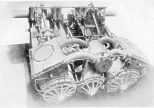 Photograph concerning a section of Empress Queen's engine.